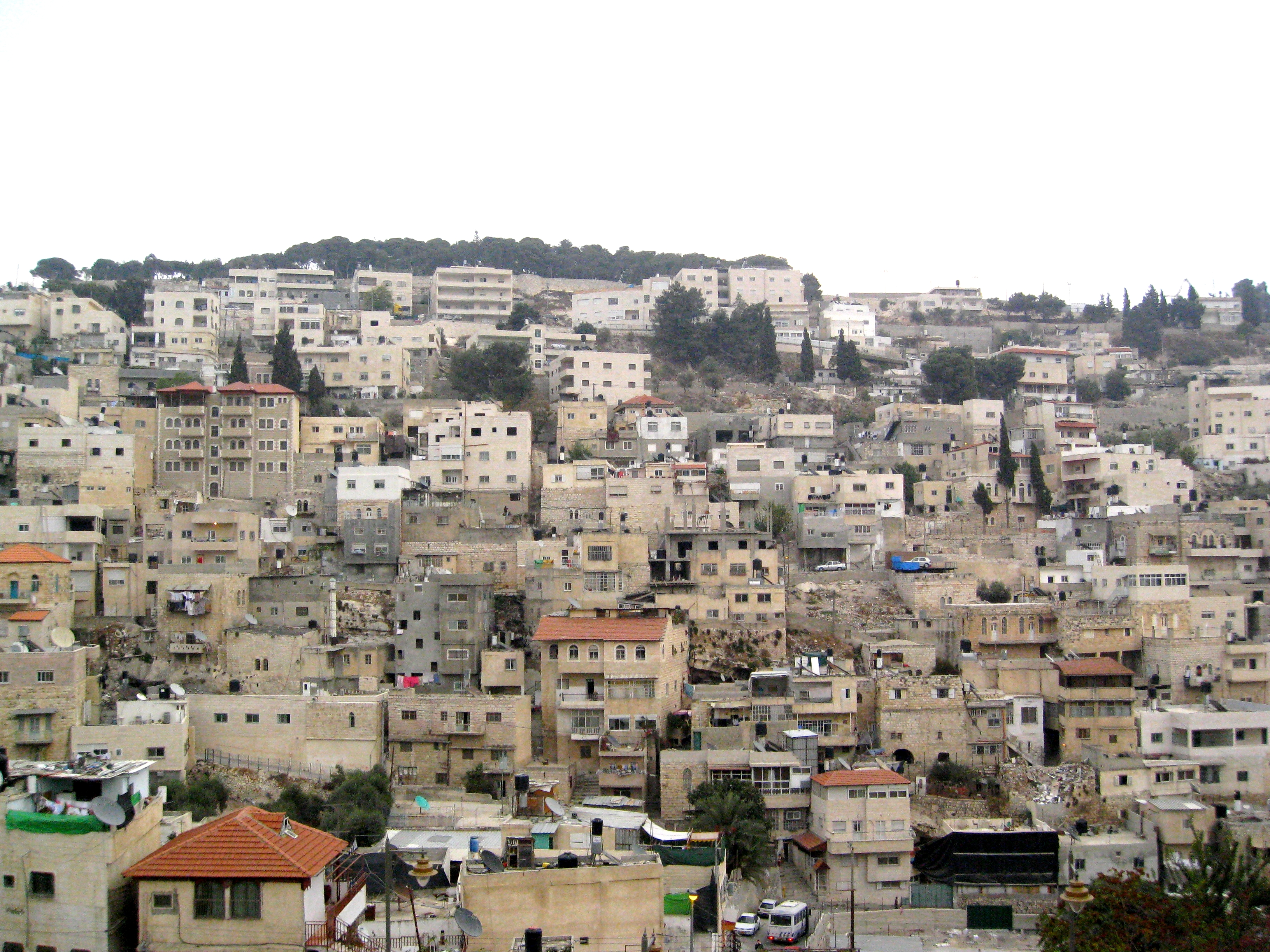 Jerusalem, Israel, Silwan (view from the City of David) Jerusalem